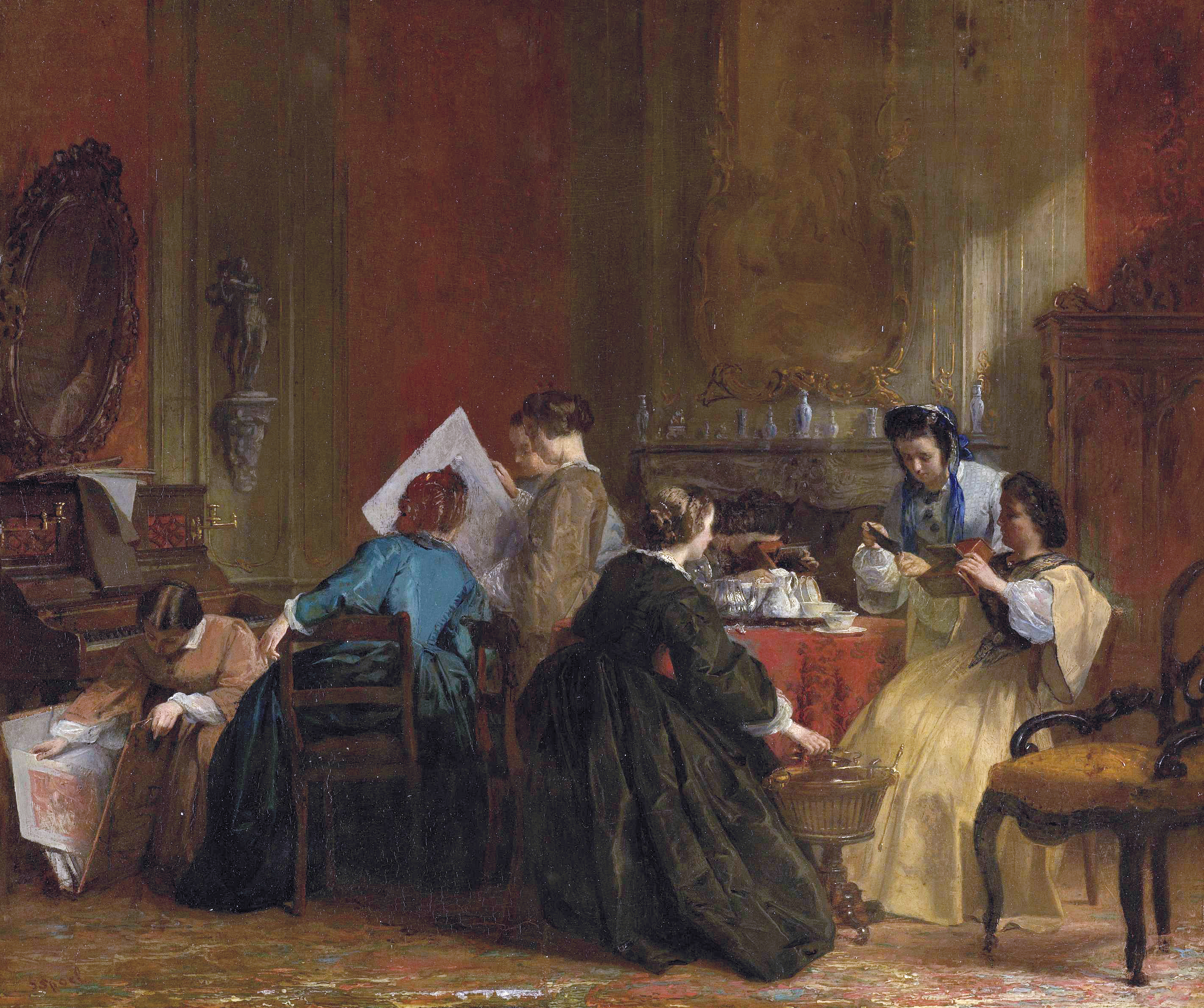 Company of ladies watching stereoscopic photographs